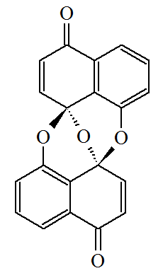 Preussomerin structural basis